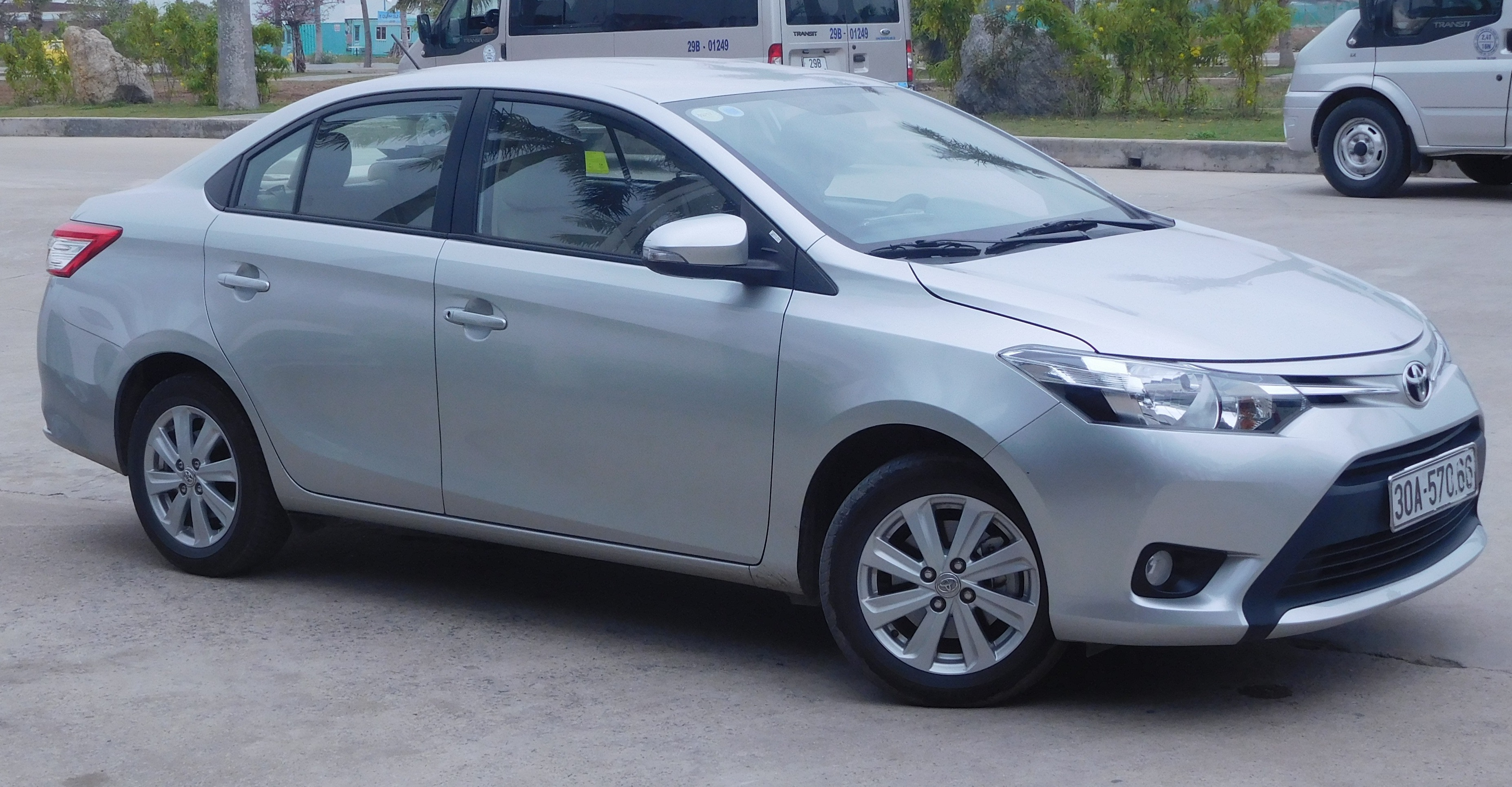 Toyota Vios (XP150) sedan, photographed in Halong Bay, Vietnam.